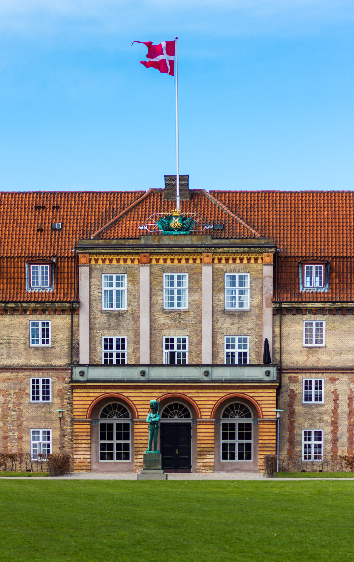 The main entrance of RRosenborg Barracks in Copenhagen, Denmark